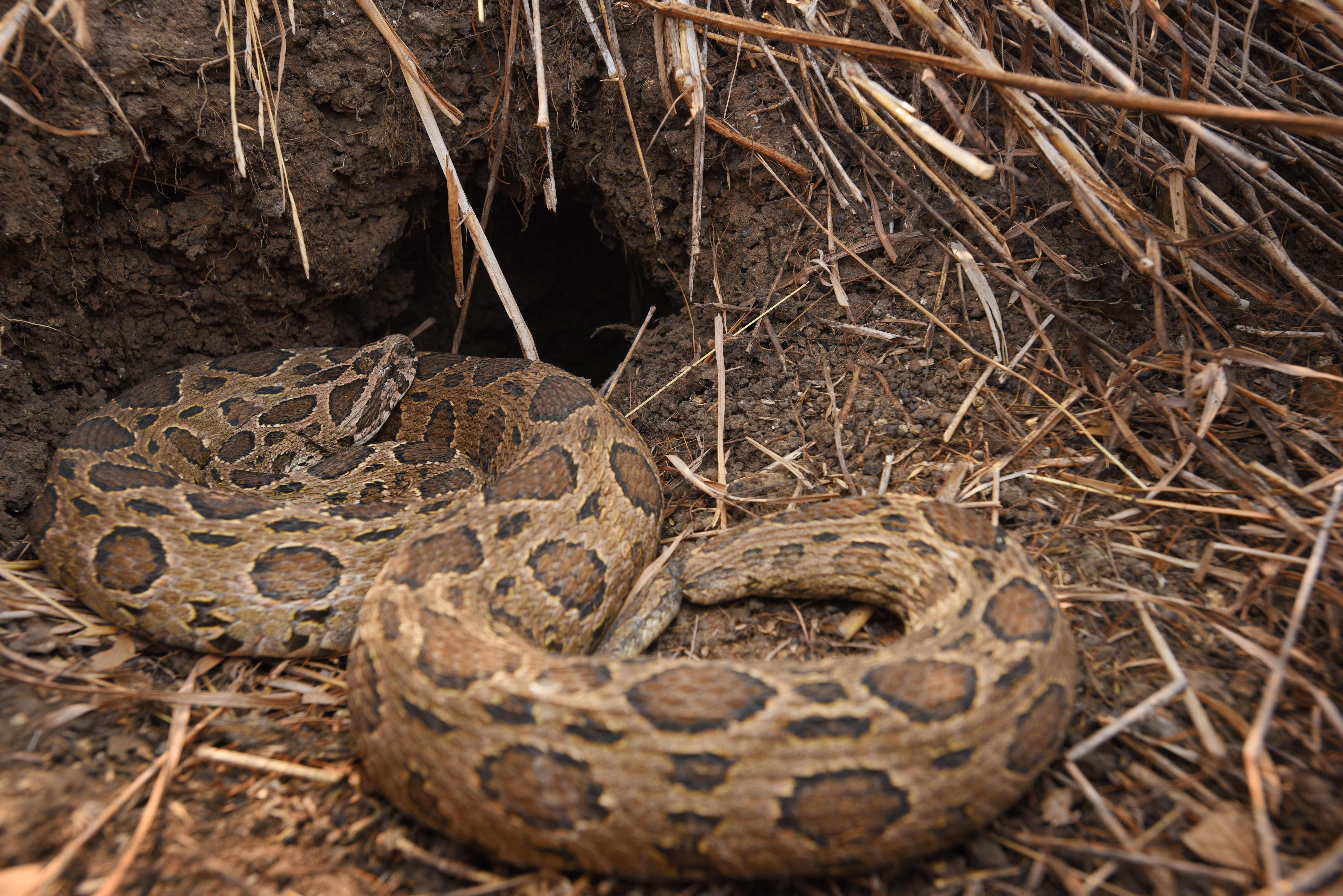 Siamese Russell's Viper in Thailand. Photo by